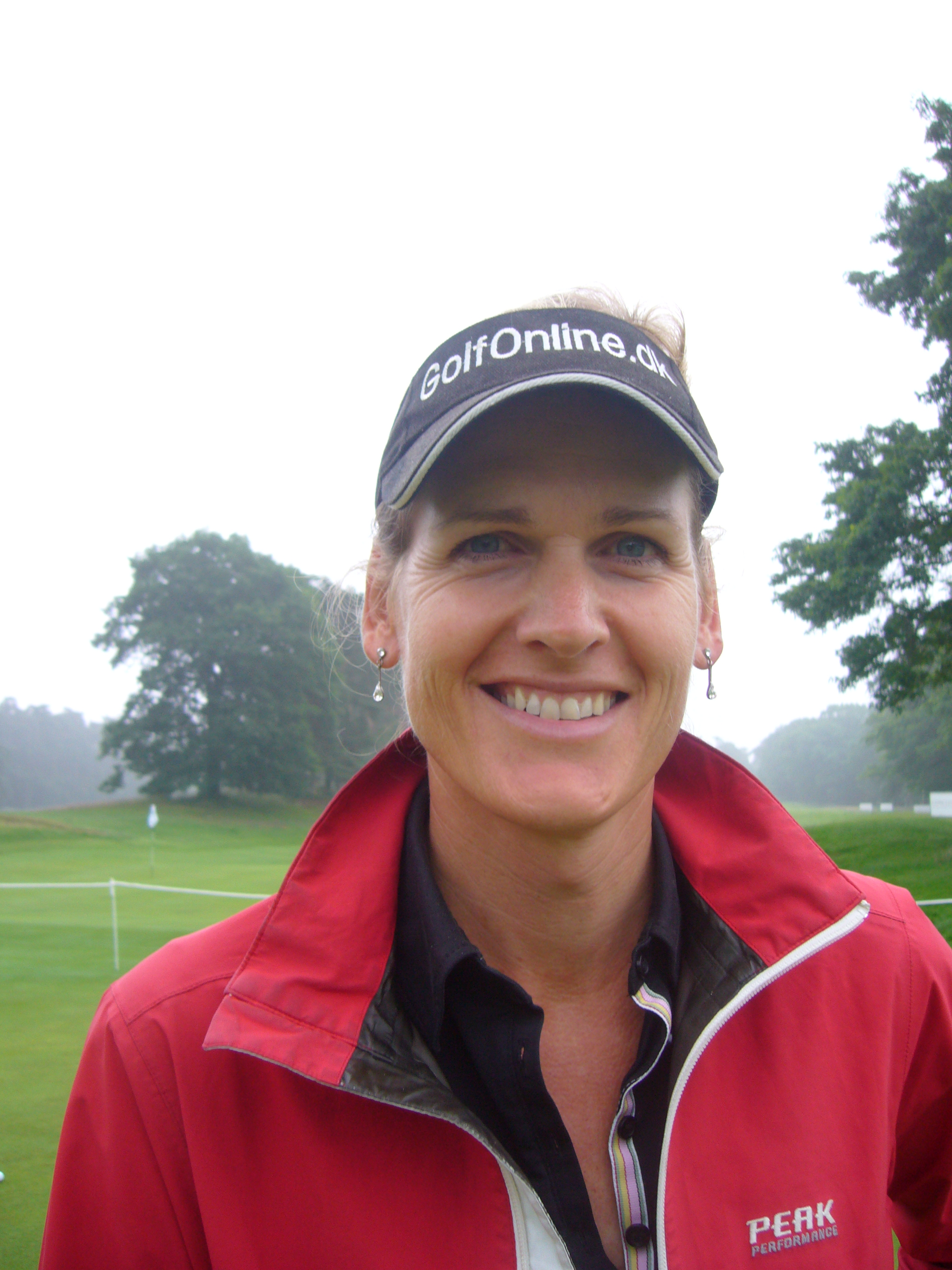 Mianne Bagger, Danish golfprofessional on the LET